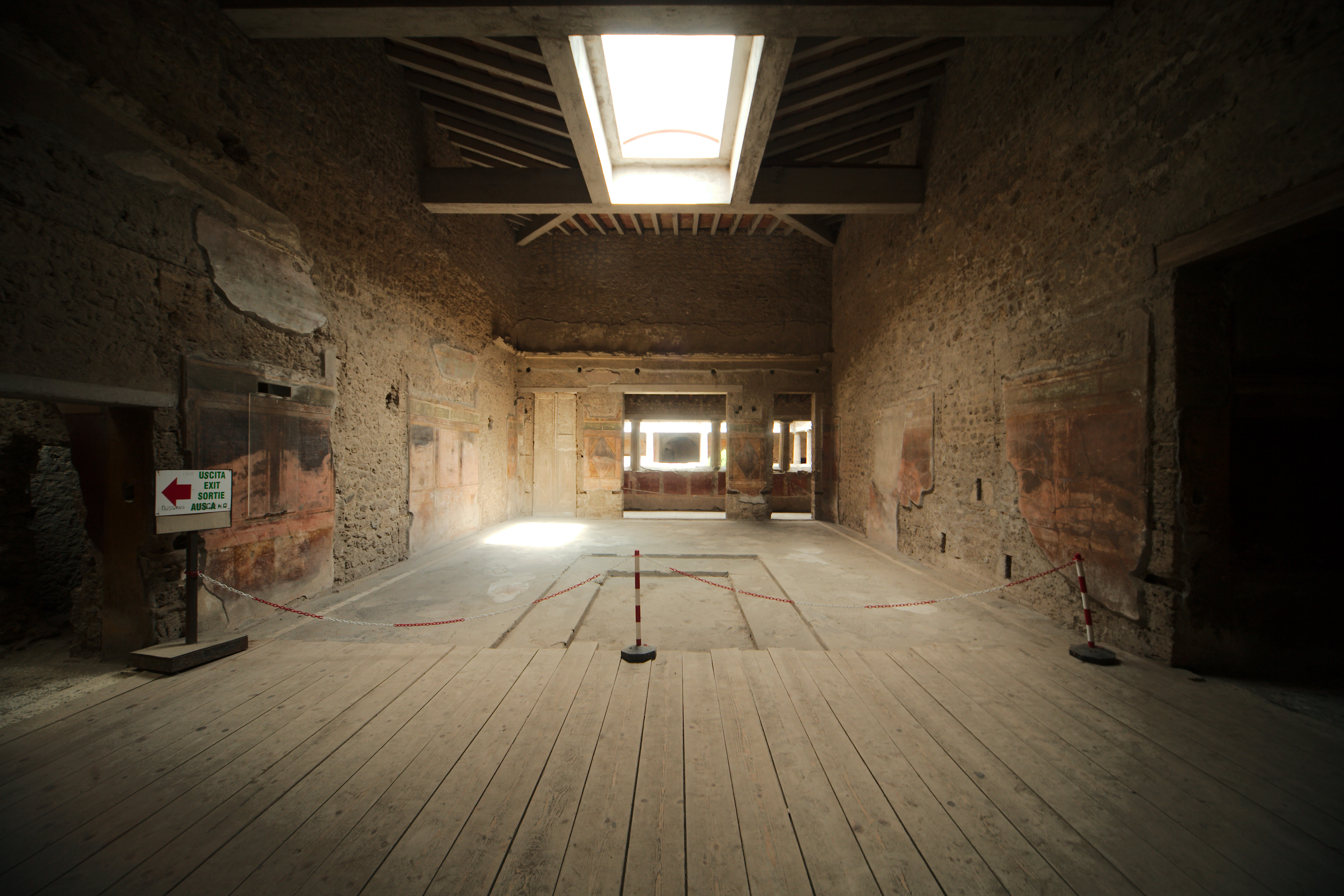 Villa of the Mysteries (Pompeii)